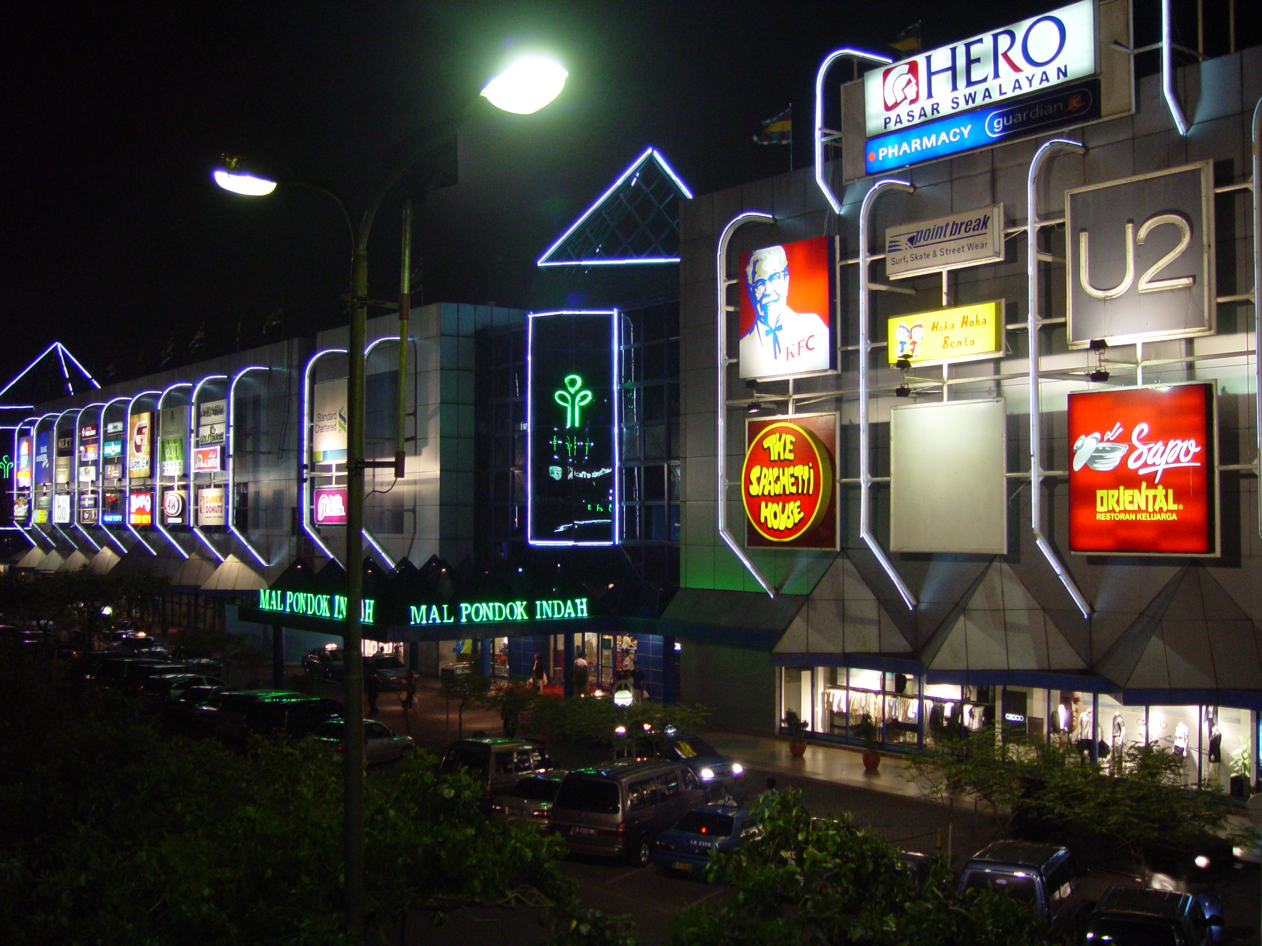 Mall cultural in Jakarta, Indonesia.